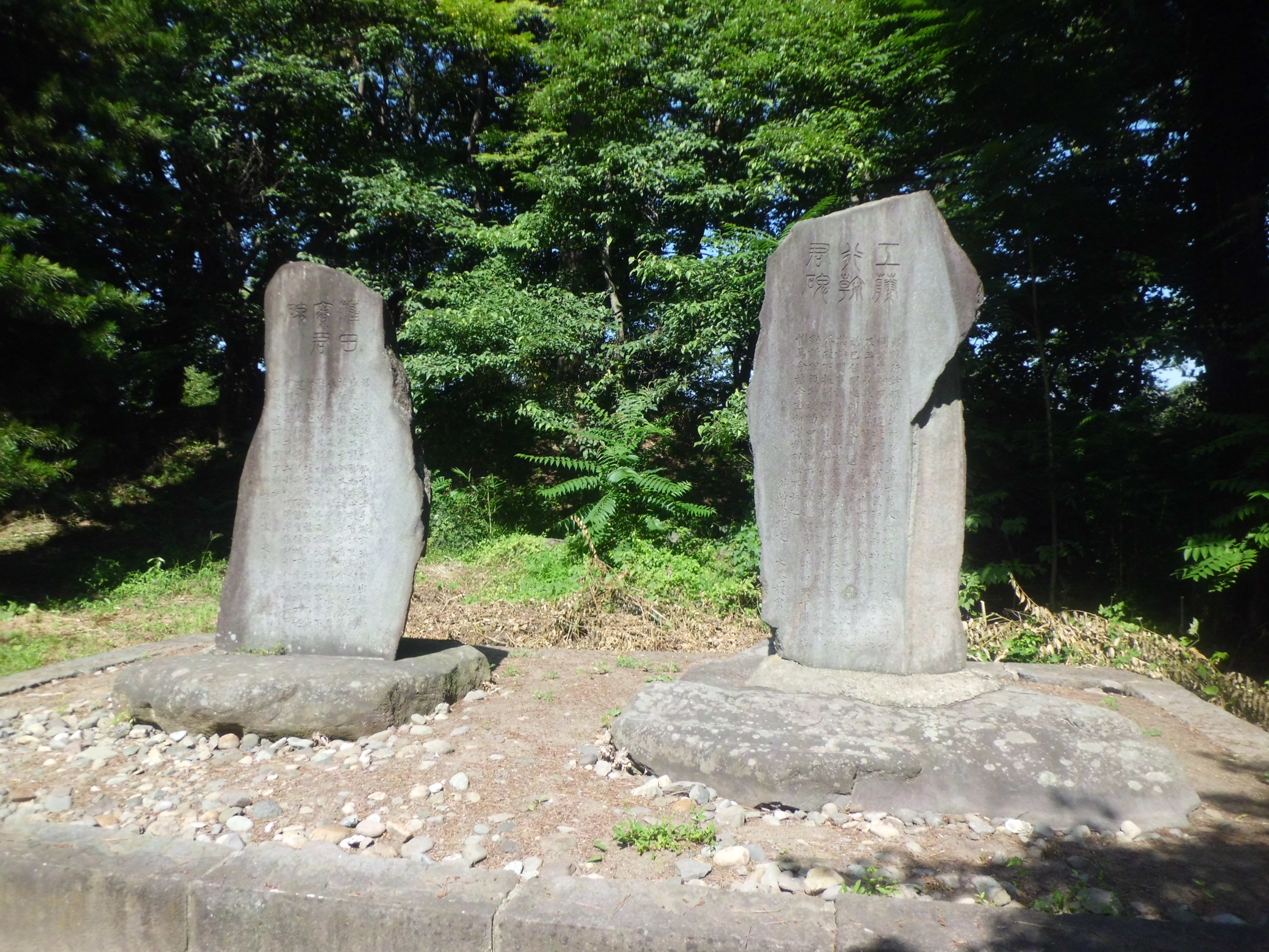 Monuments of Yukimoto Kudo (right) and Hiroshi Gatsugita (left)